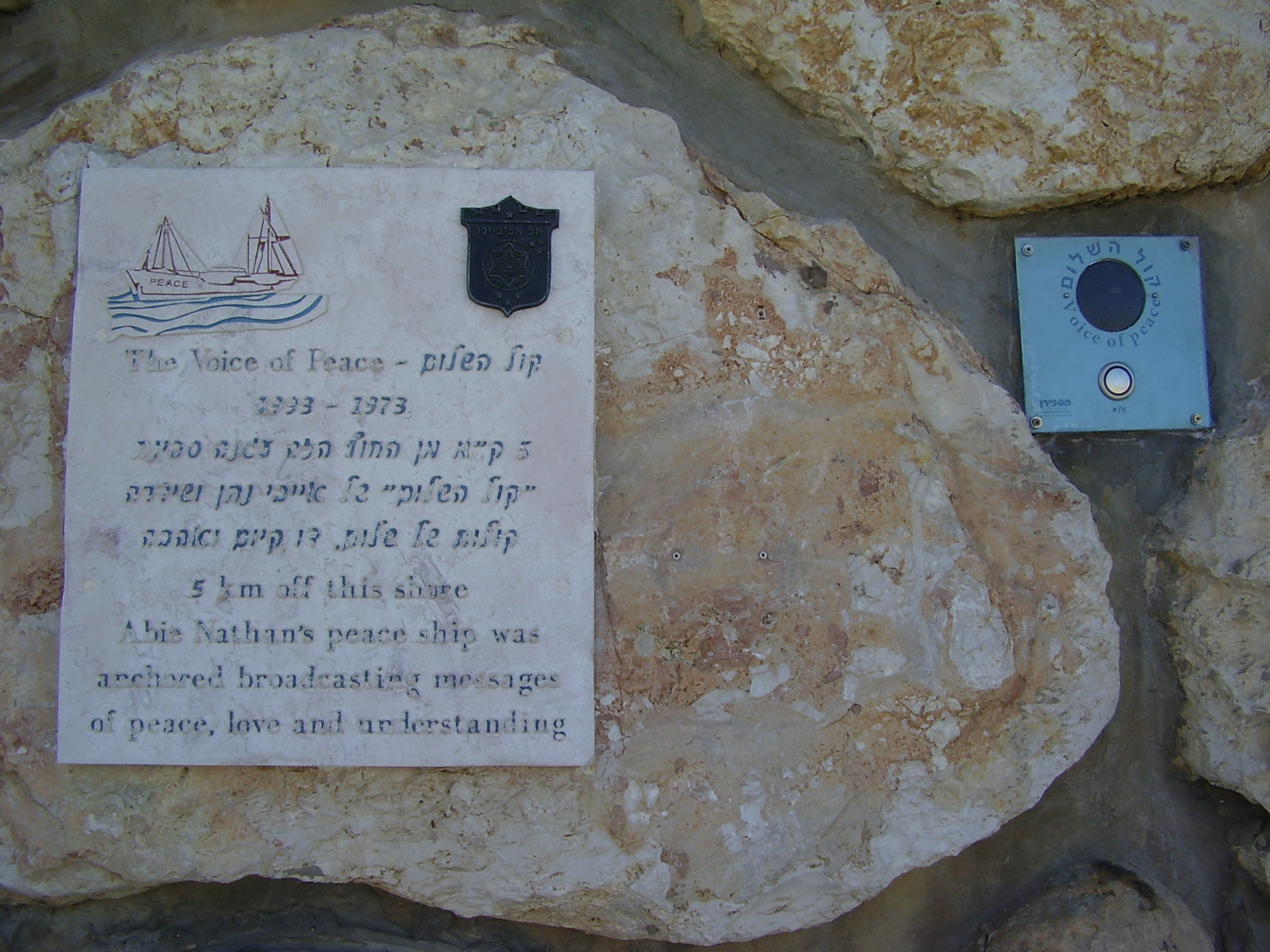 memorial plaque to "the voice of peace" in tel aviv לוחית זיכרון ל"קול השלום" בחוף גורדון בתל אביב